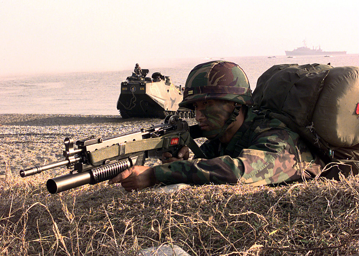 A Republic of Korea (ROK) Marine watches his line of fire after he and his fellow marines assaulted Tok Suk-Ri Beach, ROK, during an amphibious assault exercise, Oct. 31, 1998. The assault was part of the ROK Marines participation in Foal Eagle '98.